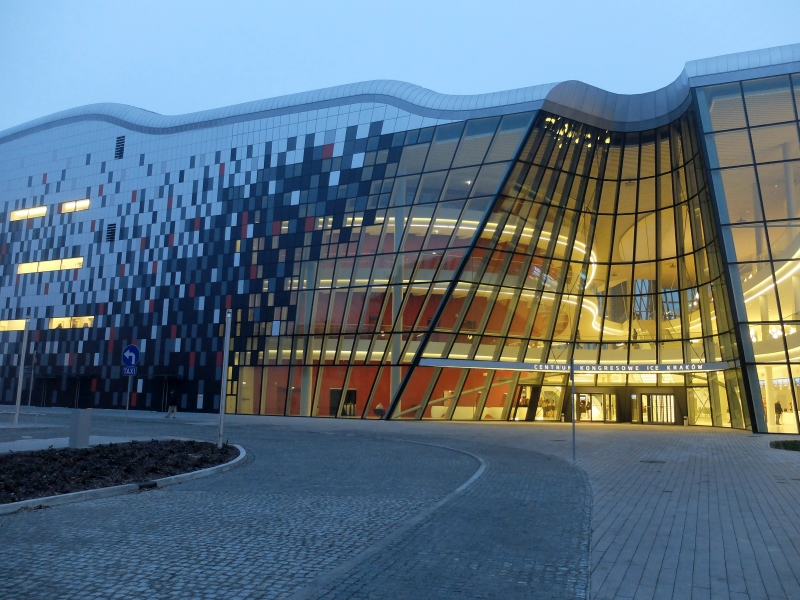 Kraków Congress Centre